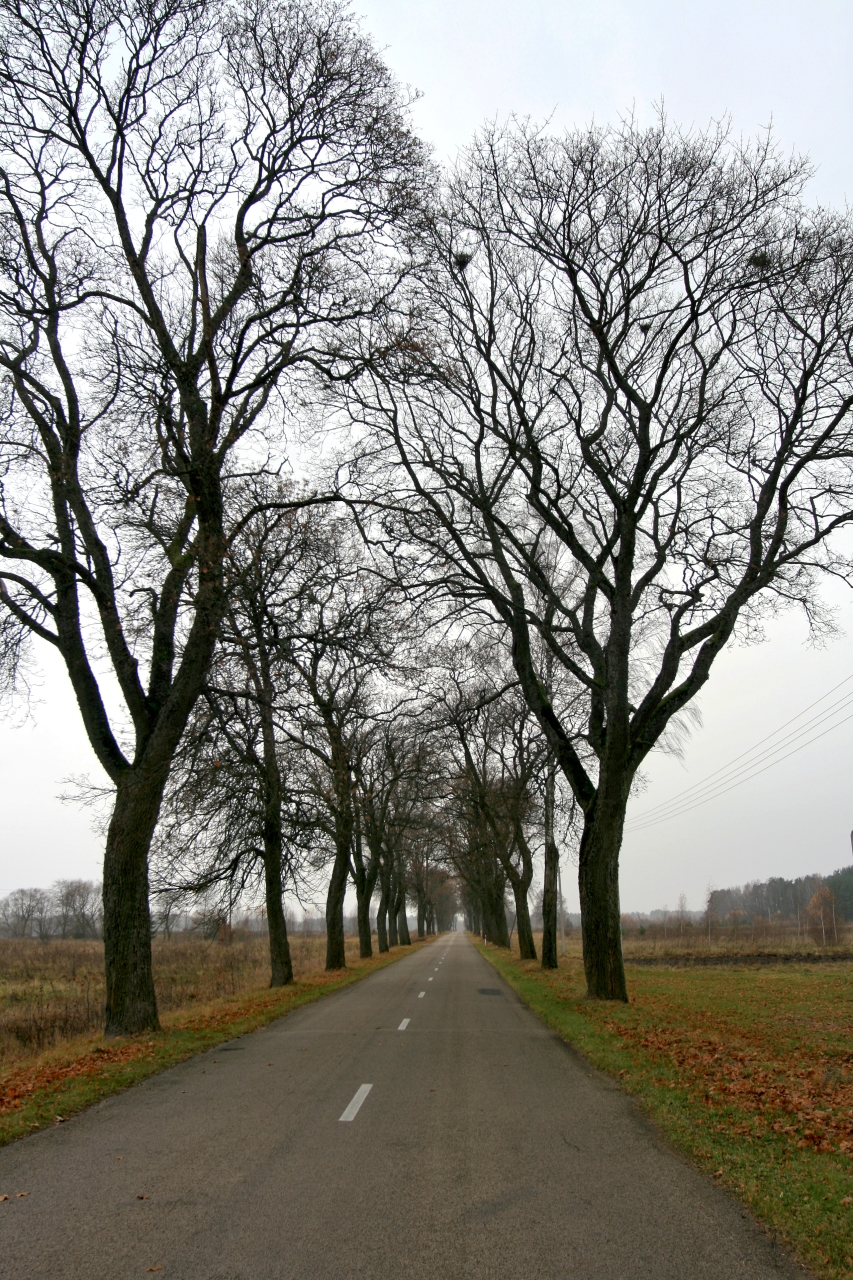 Smalininkai oak alley